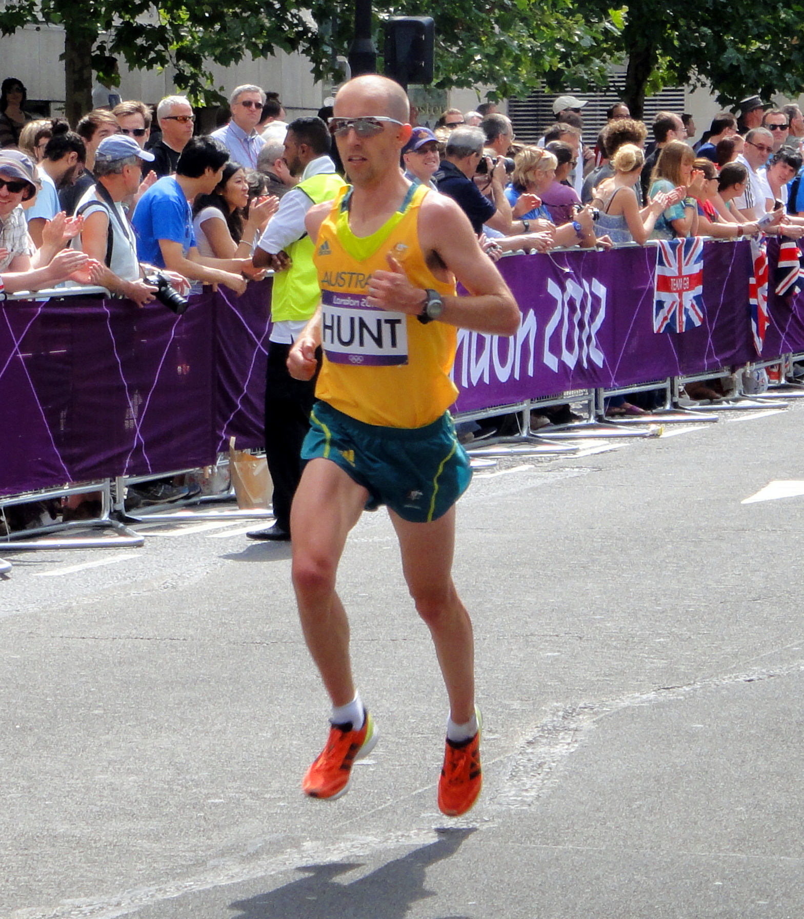 Jeff Hunt (Australia) - London 2012 Men's Marathon